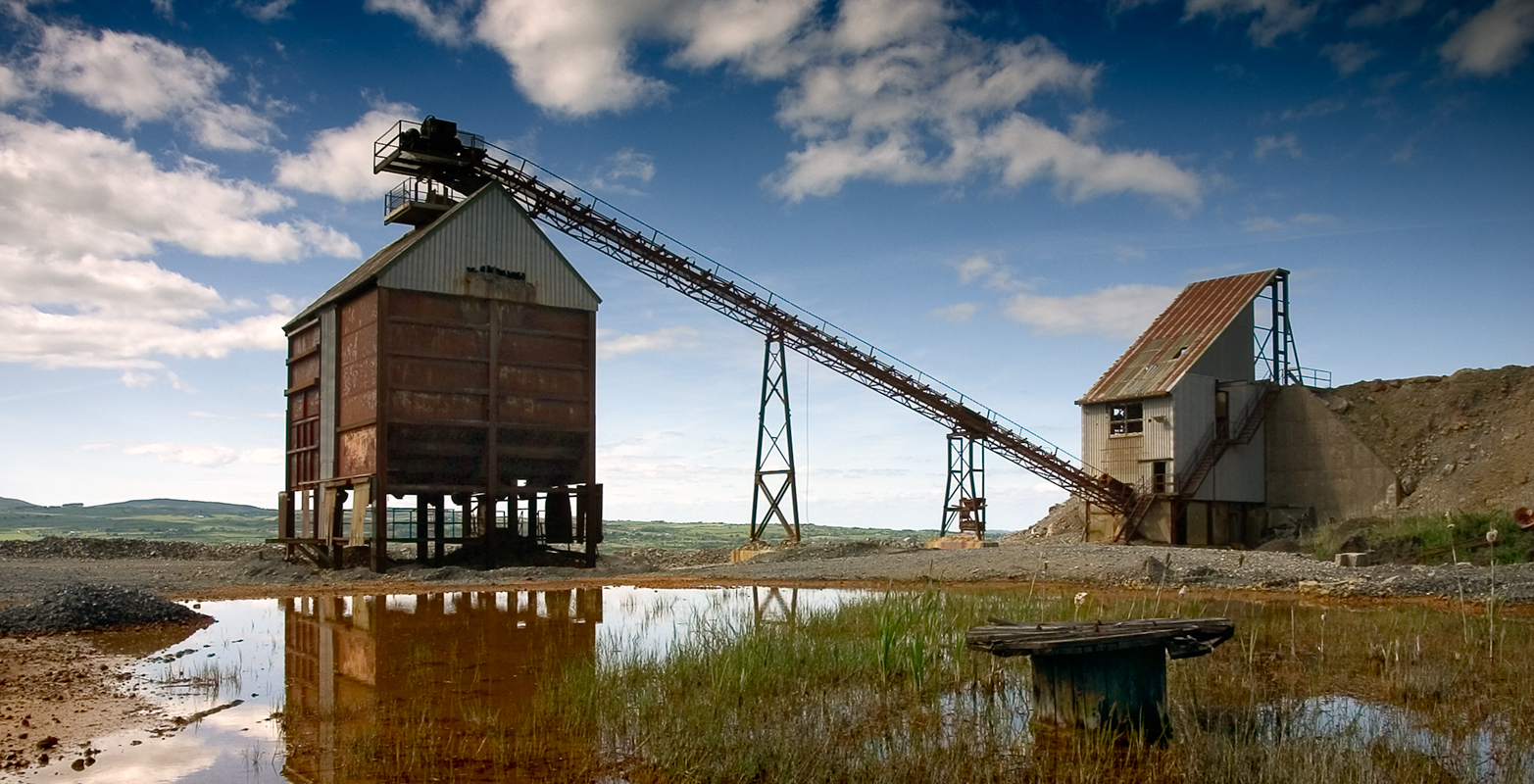 An industrial rock crusher (left) connected to a derelict silver mine (right) by a conveyor. Tipperary, Ireland.